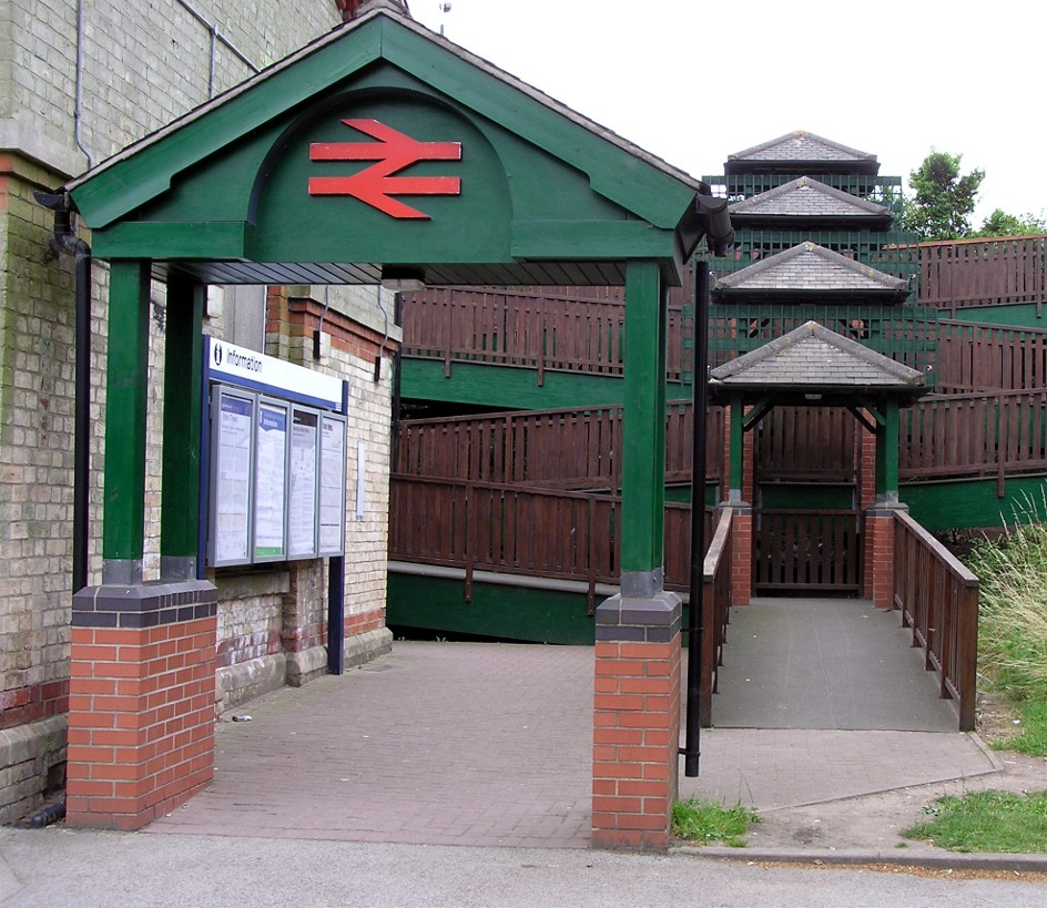 the entrance